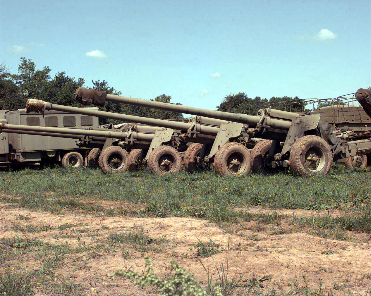 Four M46 130mm Guns belonging to the VRS mixed Artillery Regiment in Bijelina Barracks (CQ 600578) are parked on the grass. The Task Force Eagle Division Artillery Verification Inspection Team and soldiers from the Russian Brigade were on the site to conduct a weapons inspection in accordance with D+120 GFAP requirements during Operation Joint Endeavor.